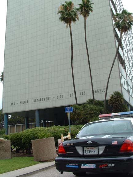 "Old" Parker Center — the previous headquarters of the Los Angeles Police Department, in the Civic Center district.